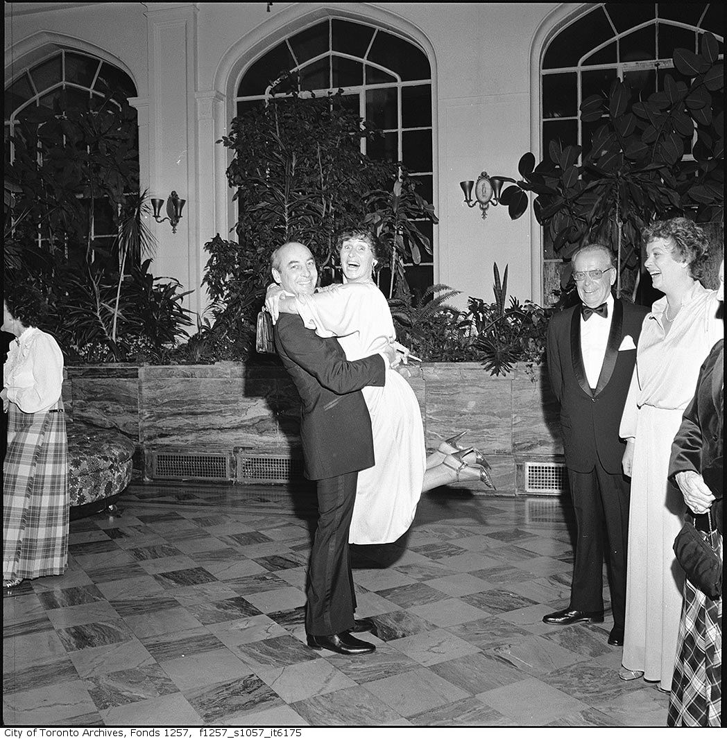 Photographer: Alexandra Studio 1976 City of Toronto Archives Series 1057, Item 6175 This image is available from the Toronto Public LibraryThis tag does not indicate the copyright status of the attached work. A normal copyright tag is still required. See Commons:Licensing. English | français | +/−